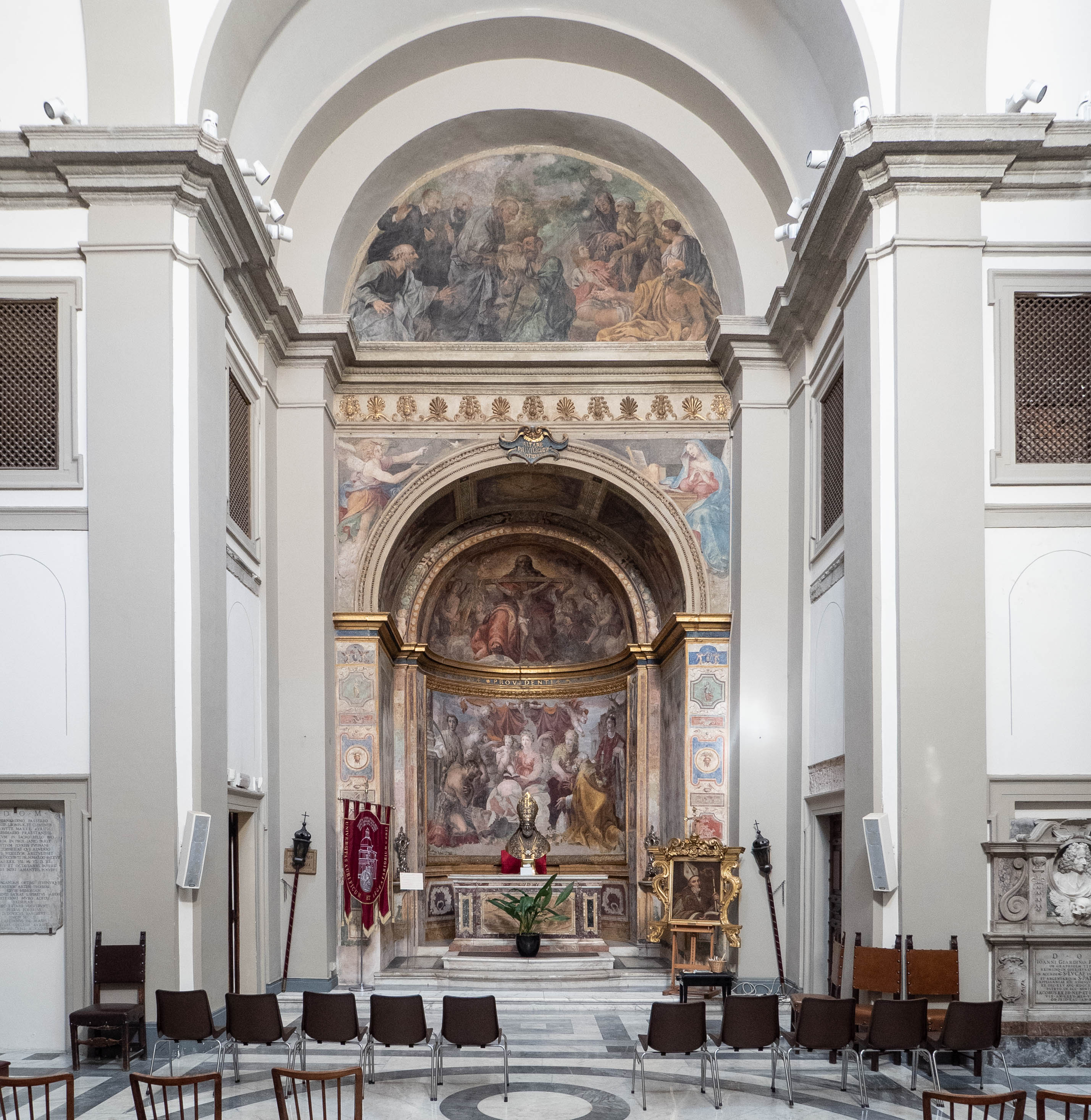 Altar and intersection of the church Sant' Eligio degli Orefici in Rome